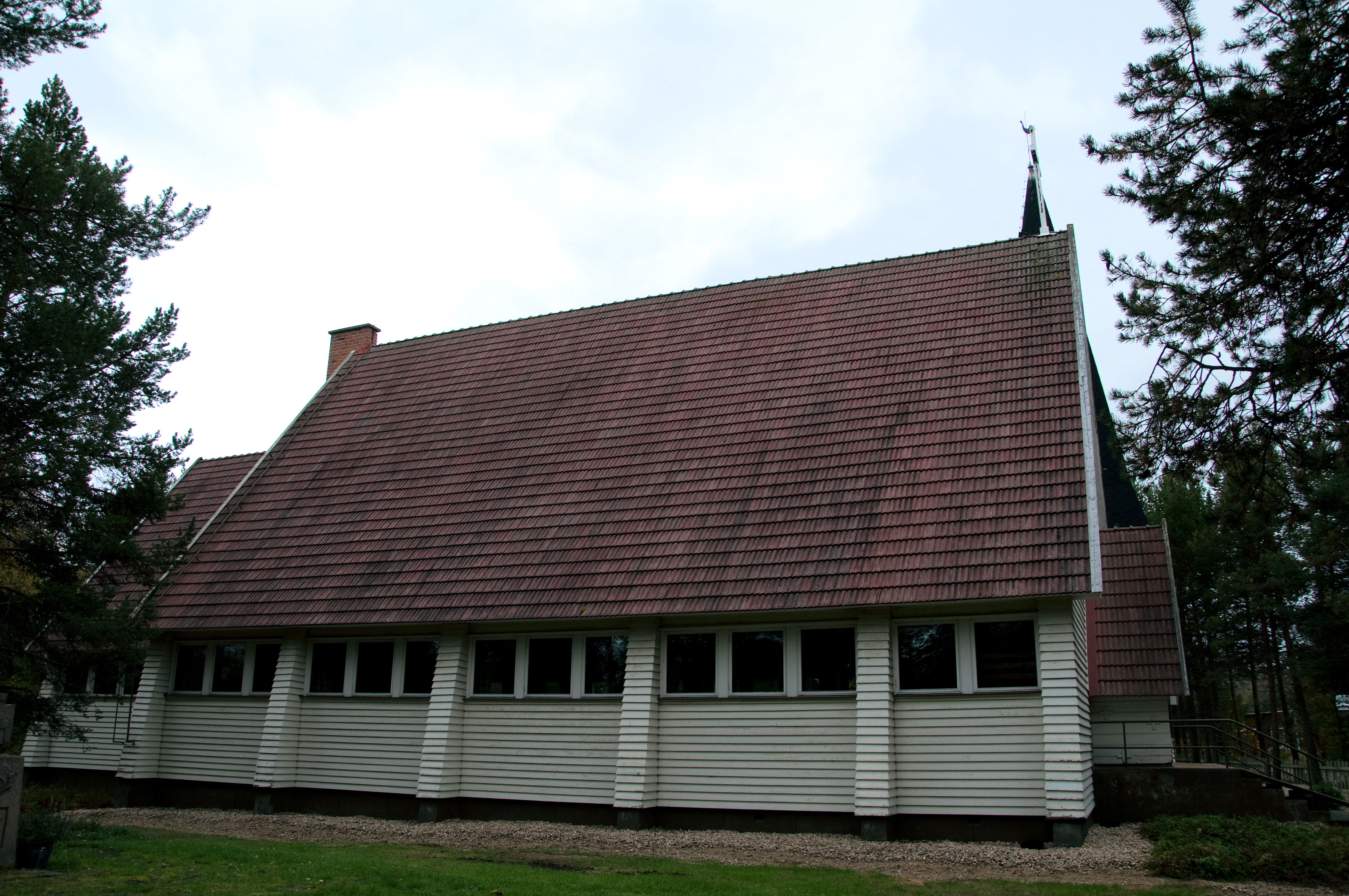 Church of Inari